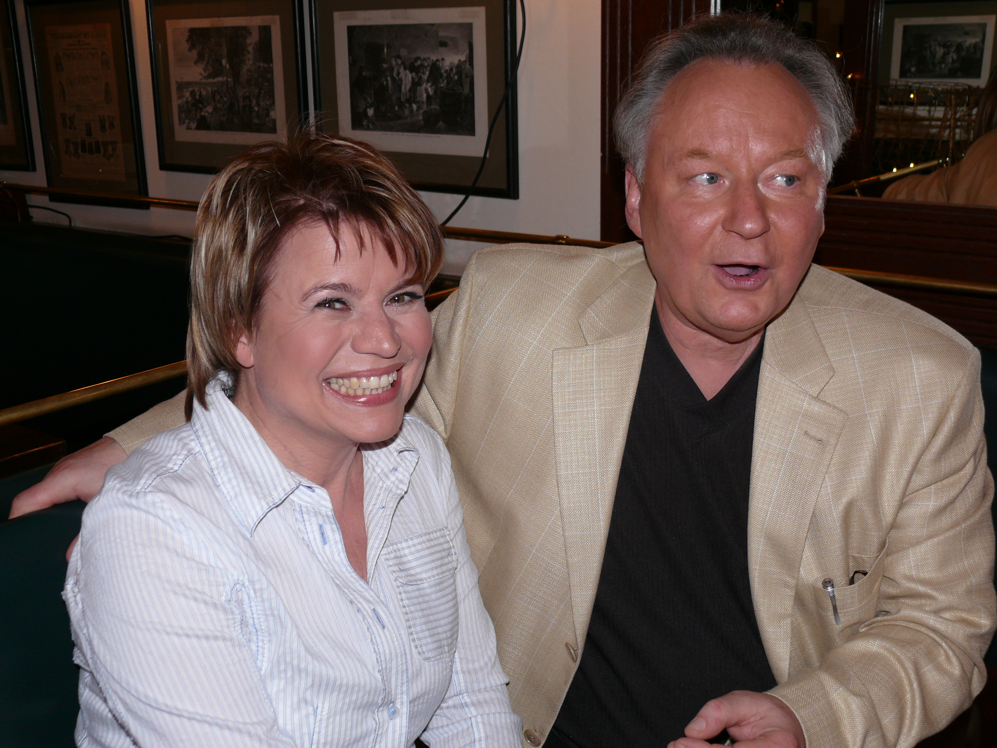 The TV presenter Ulrike Nitzschke in conversation with actor Wolfgang Hosfeld in the Café "Anger-Maier" in Erfurt.